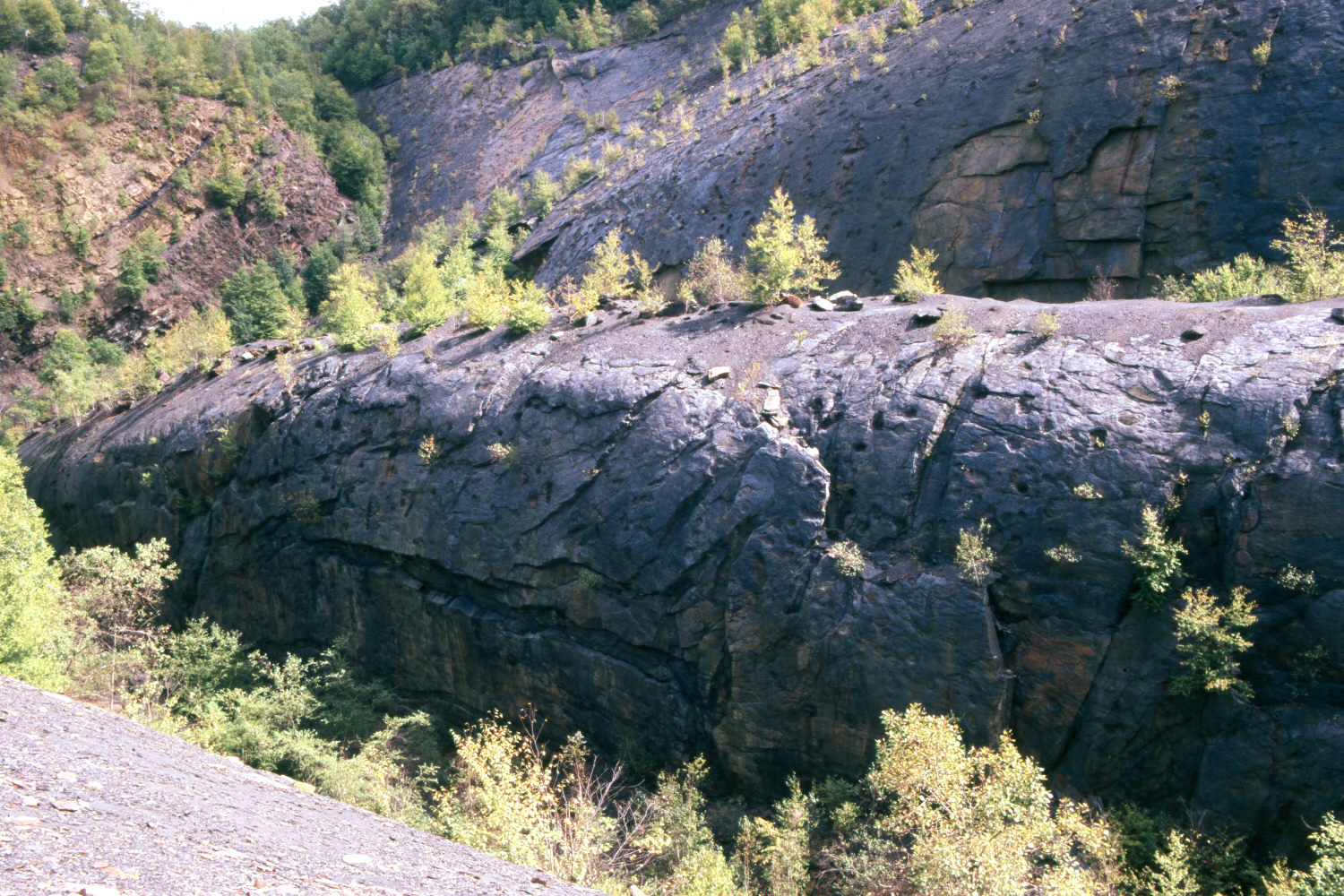 View of the Bear Valley Strip Mine, Northumberland County, Pennsylvania from the north wall facing southeast, with the "Whaleback" in center. Taken 1998.